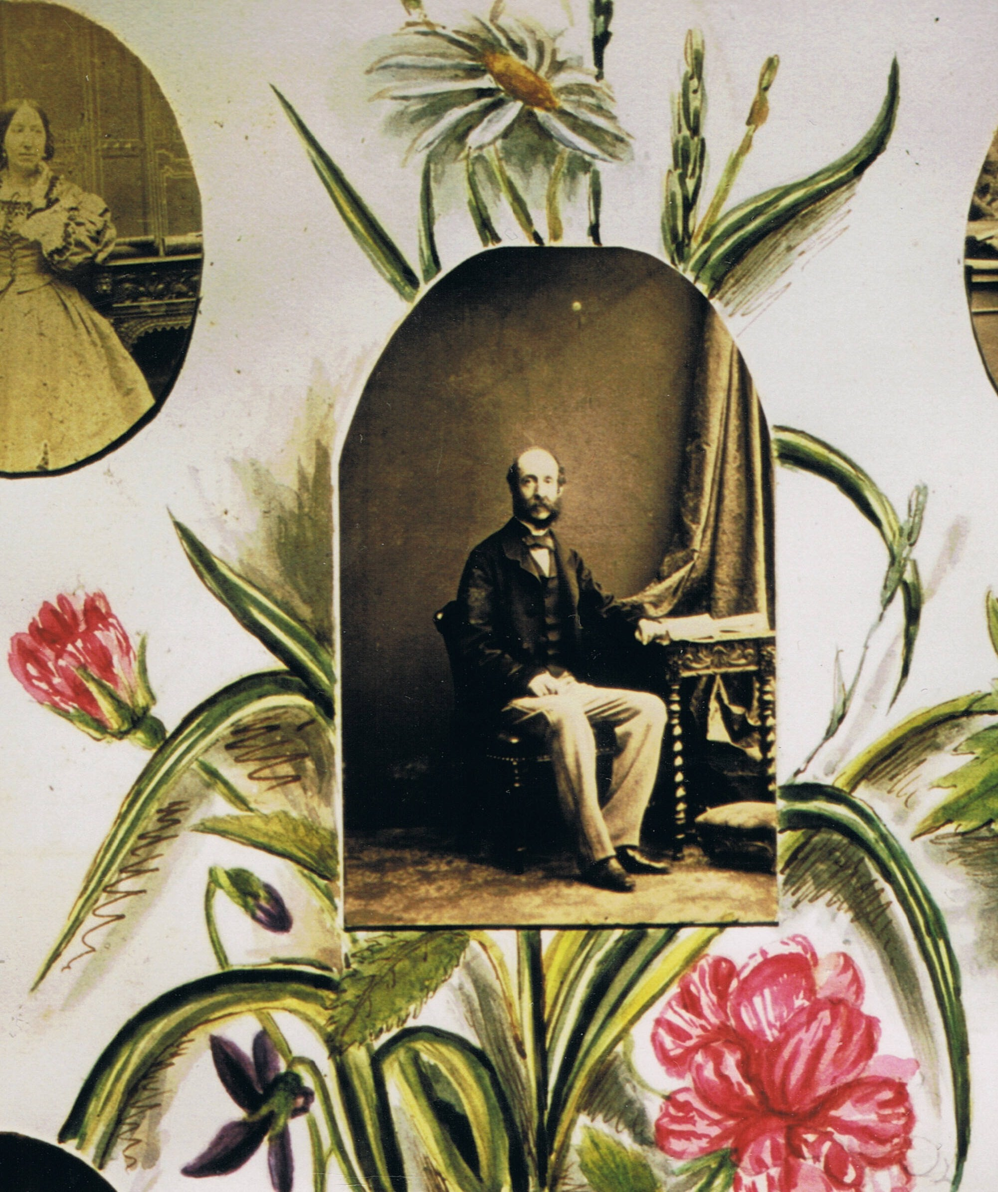 Photo (by me Rodolph (talk) 23:30, 28 July 2013 (UTC)) of a photo of General Rodolph De Salis (dated c1870) from a family album. Shows in top left corner his sister-in-law Emily Mayne who made the album and married William Fane De Salis.Rodolph (talk) 23:32, 28 July 2013 (UTC)